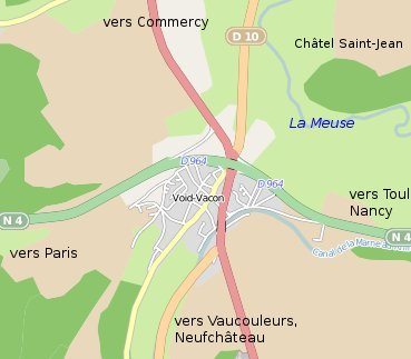 Map of Void-Vacon (Meuse, France) and surroundings (Openstreetmap, modified)